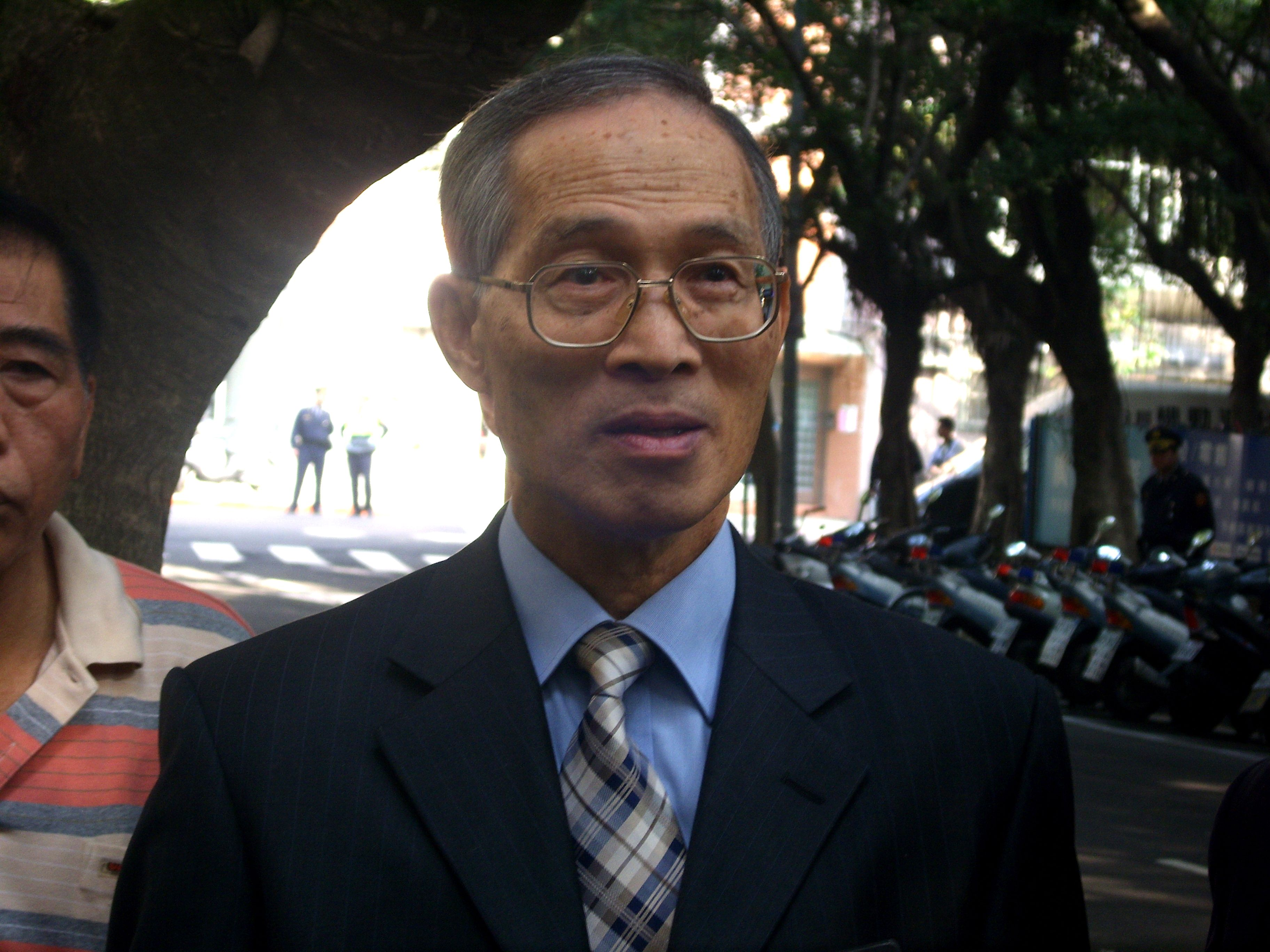 2008 Republic of China Legislative Election: CEC Commissioner Masa Chang.